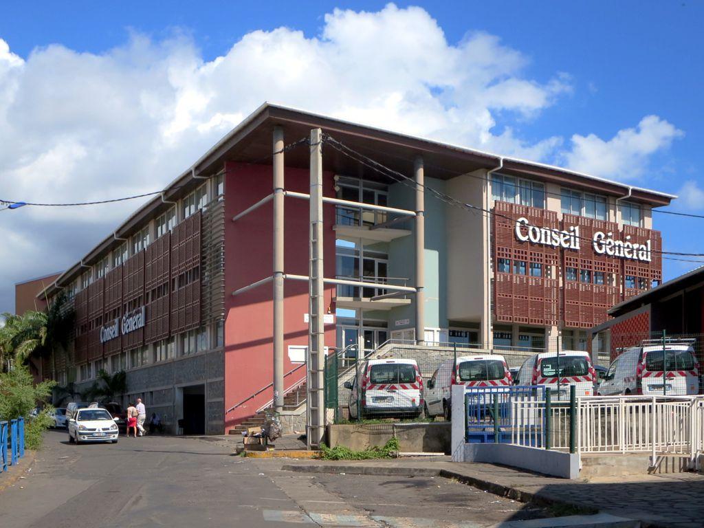 The Conseil General at Mamoudzou houses the 19-member legislative council of Mayotte, a French overseas department in the Indian Ocean.